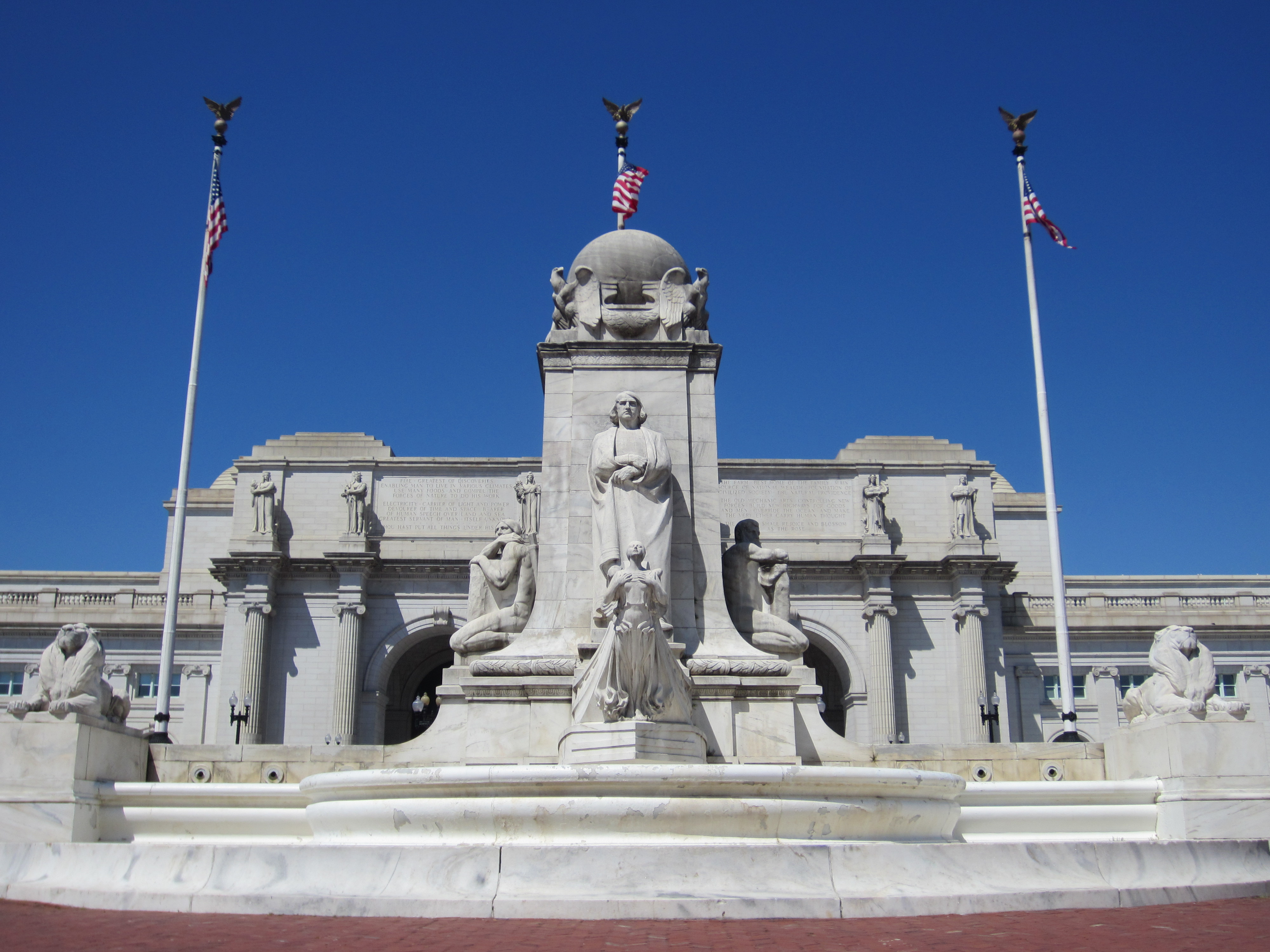 Columbus Fountain, Washington, D.C. (2013)